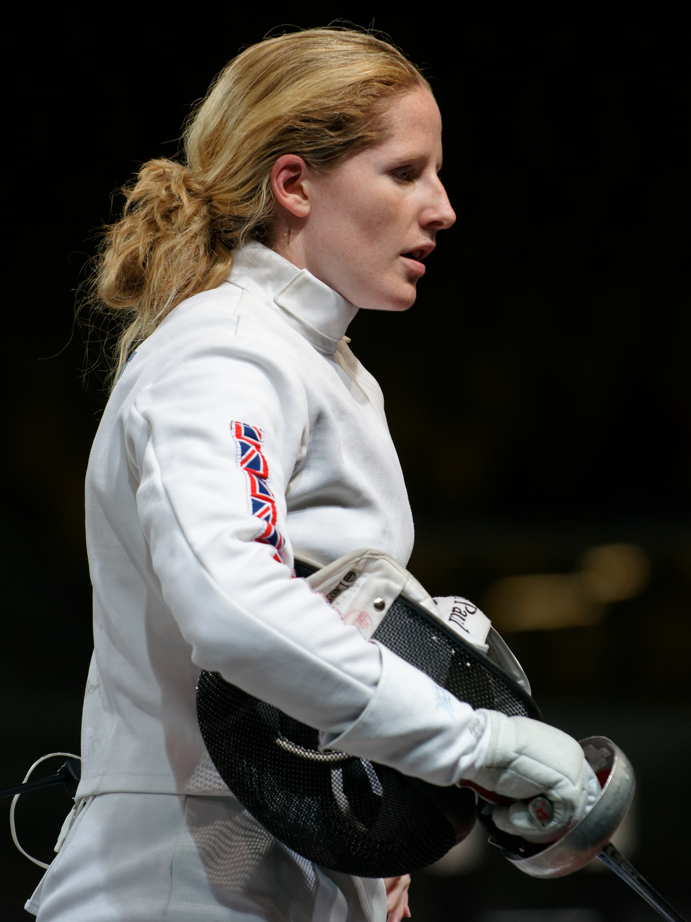 Corinna Lawrence of Great Britain at the women's épée event of the European Fencing Championships at Rhénus Sport in Strasbourg on 8 June 2014.